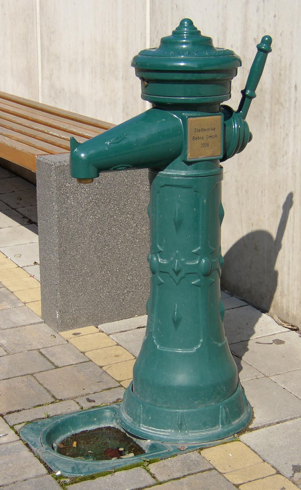 Tap in Bebra in Hesse, Germany